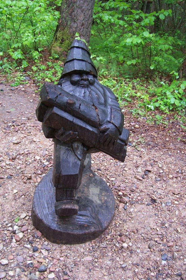 Un nain portant du bois dans le parc de Tervete (Lettonie) Dwarf carrying wood in Tervete's park (Latvia) I took the photo by myself in Tervete park, I think there is no low protecting the sculptures in the park as cameras are not prohibited.